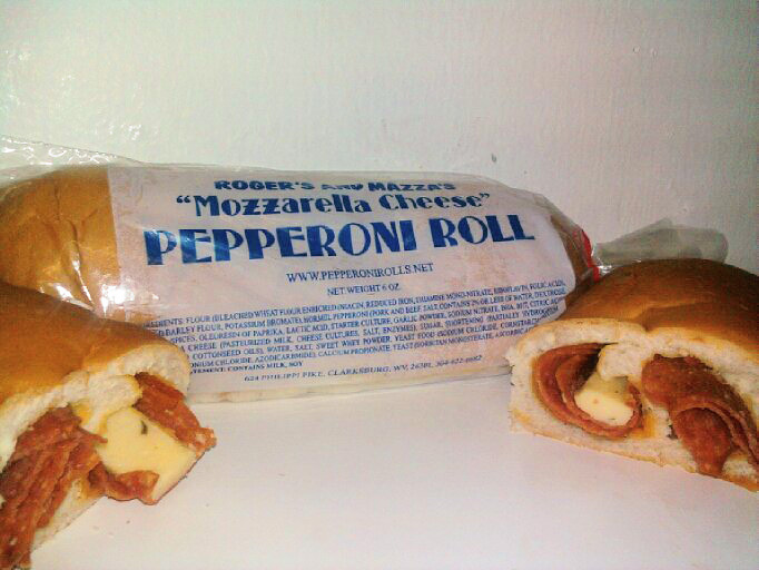 Rogers and Mazza pepperoni roll